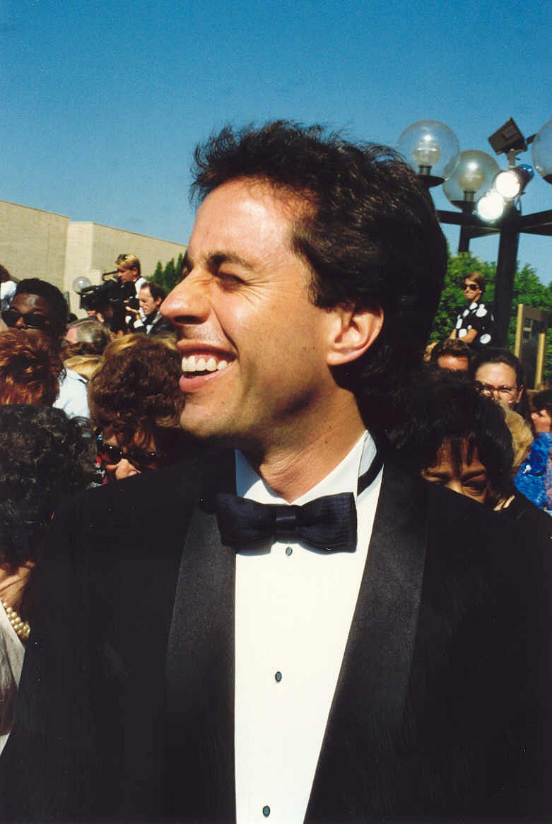 Jerry Seinfeld at the 44th Emmy Awards